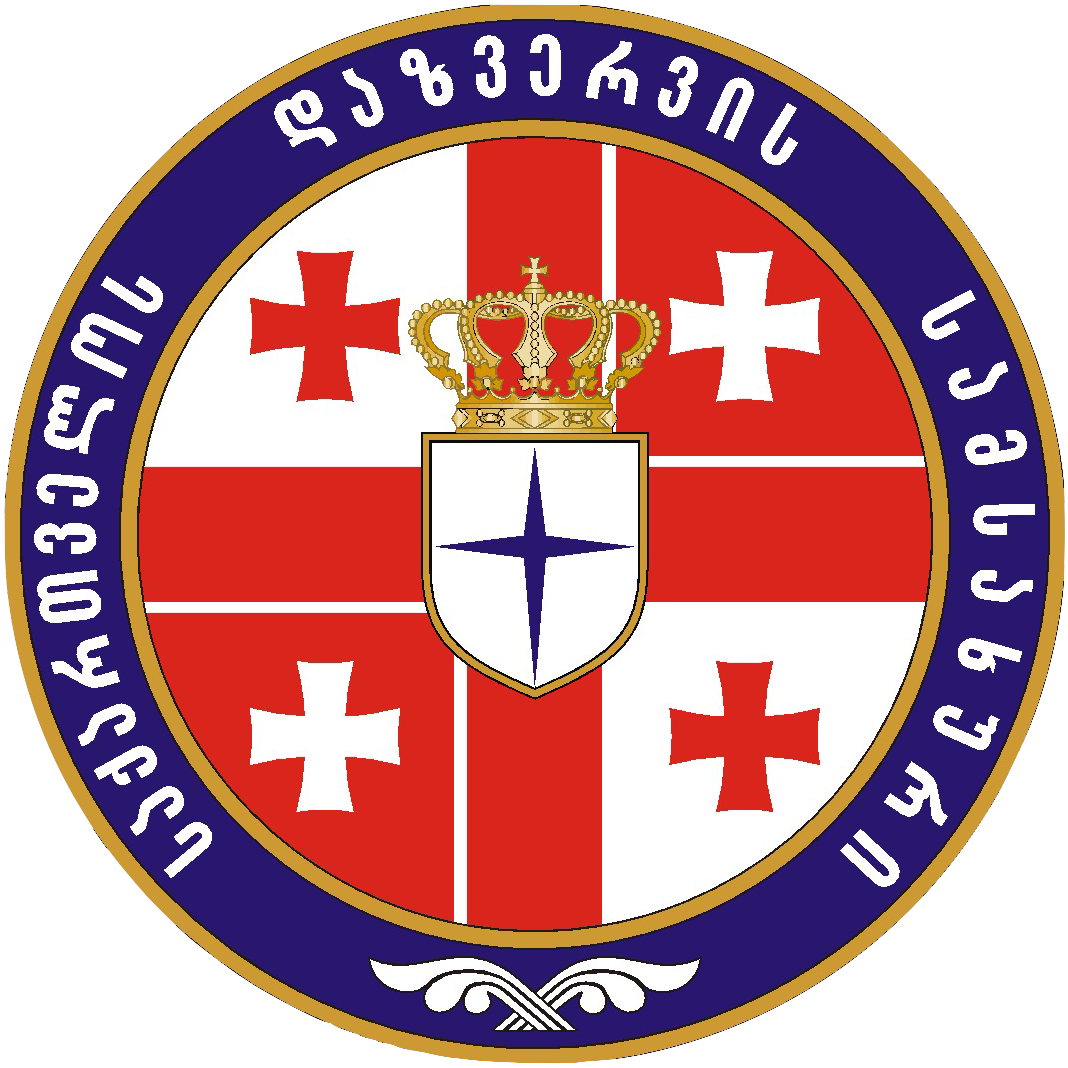 The coat of arms of the Georgian Service Intelligence Service